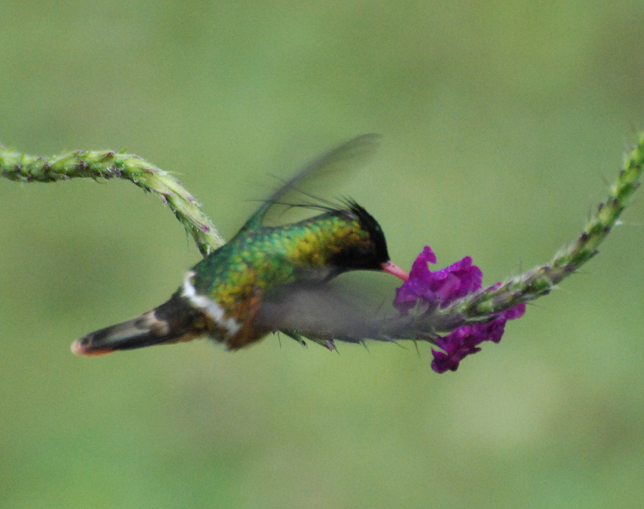 Black-crested Coquette, on Stachytarpheta cf. frantzii, at the Arenal Volcano Lodge, Costa Rica, 080224. Lophornis helenae en .